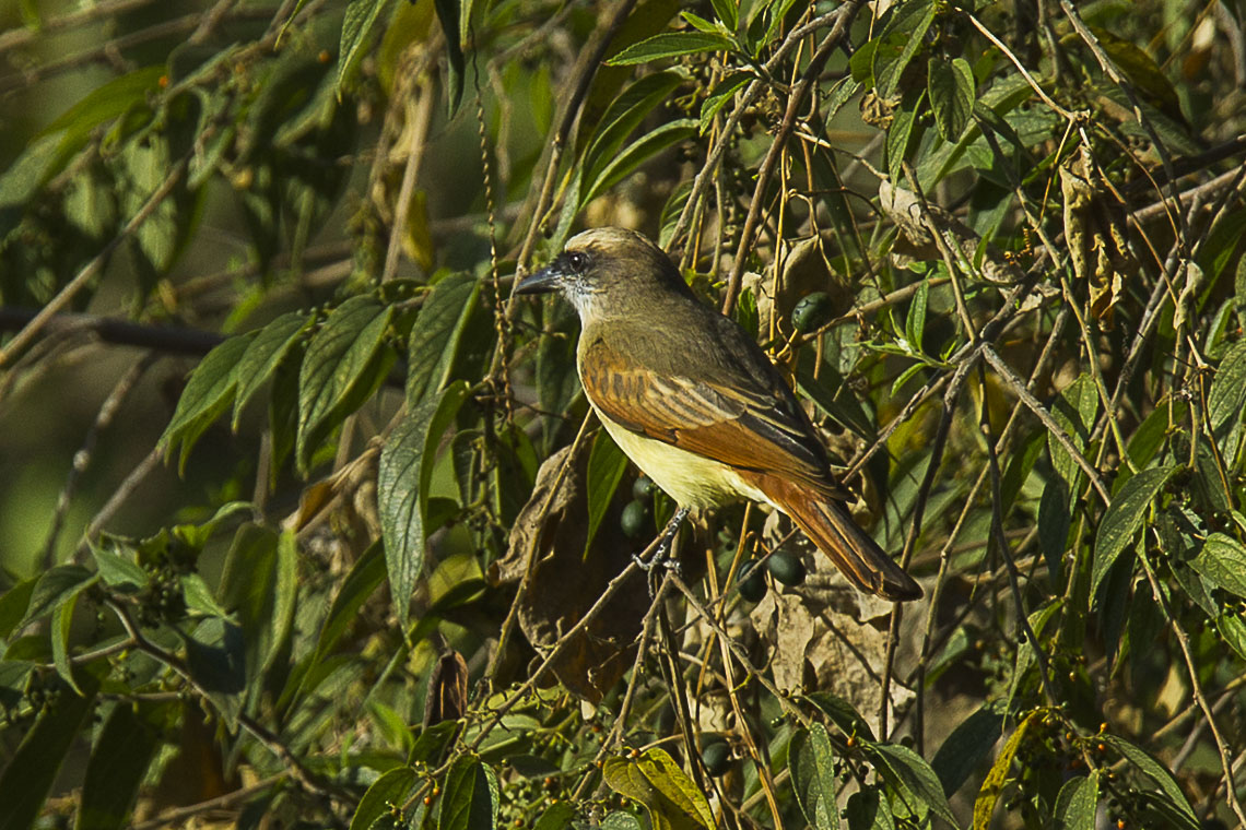 Baird's Flycatcher (Myiodynastes bairdii) - South Ecuador_S4E9320